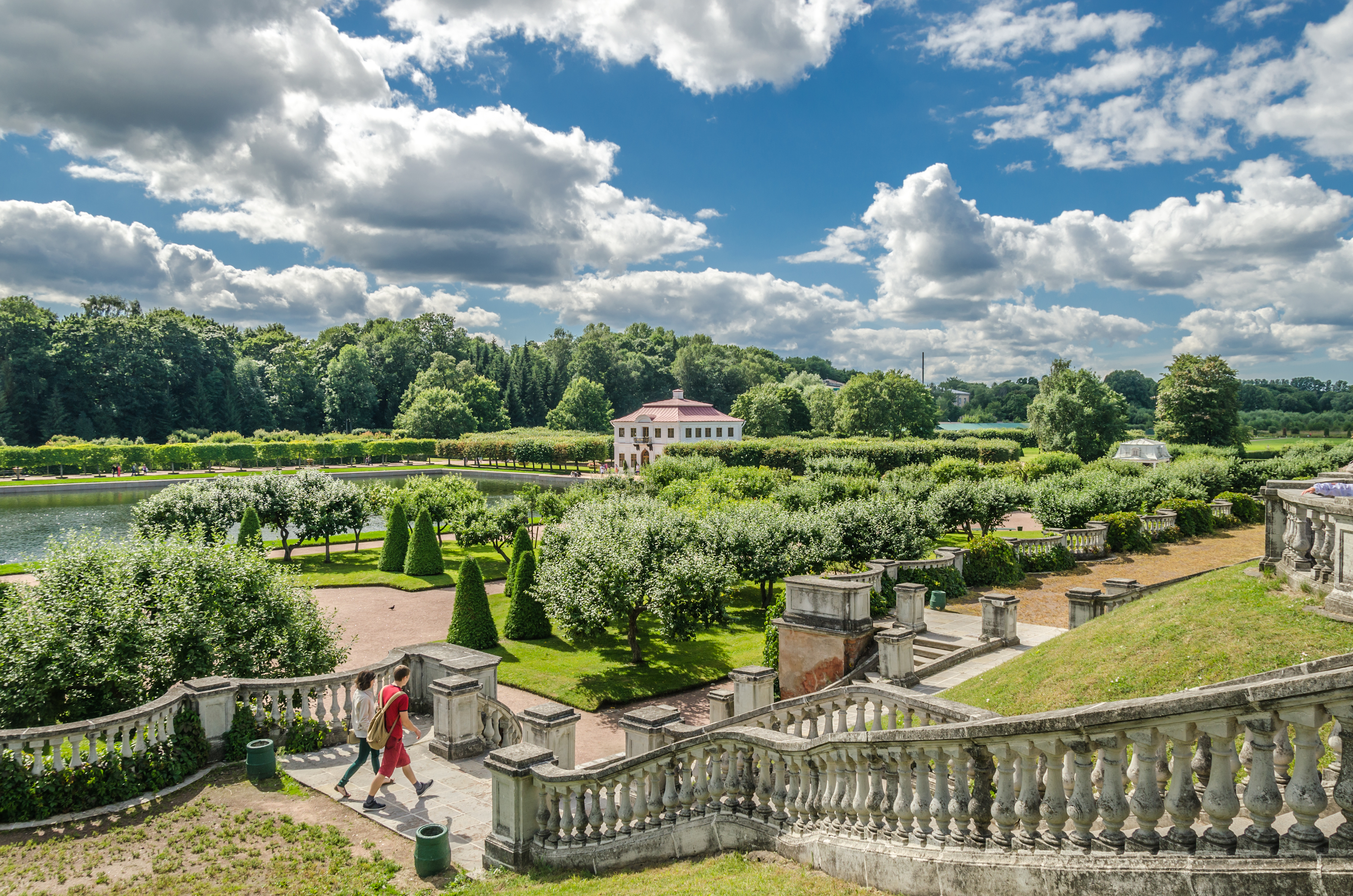 Venera garden in the Lower Park of Peterhof